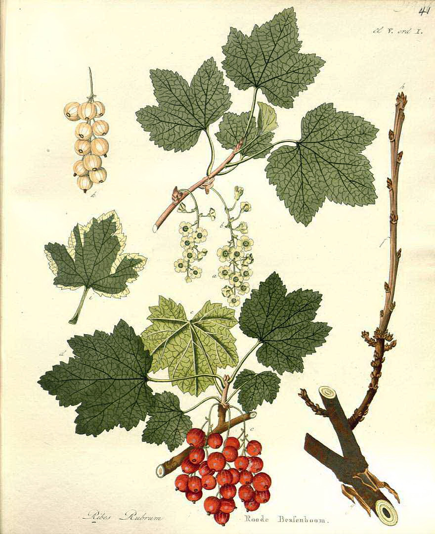 Ribes rubrum L. - red currant - Krauss, J.C., Afbeeldingen der fraaiste, meest uitheemsche boomen en heesters, t. 41 (1840)